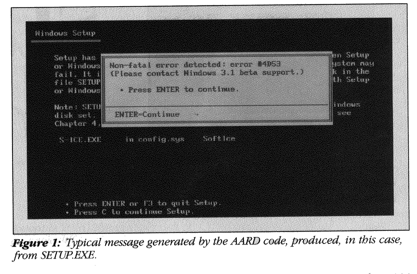 An example of the error messages the AARD would produce.